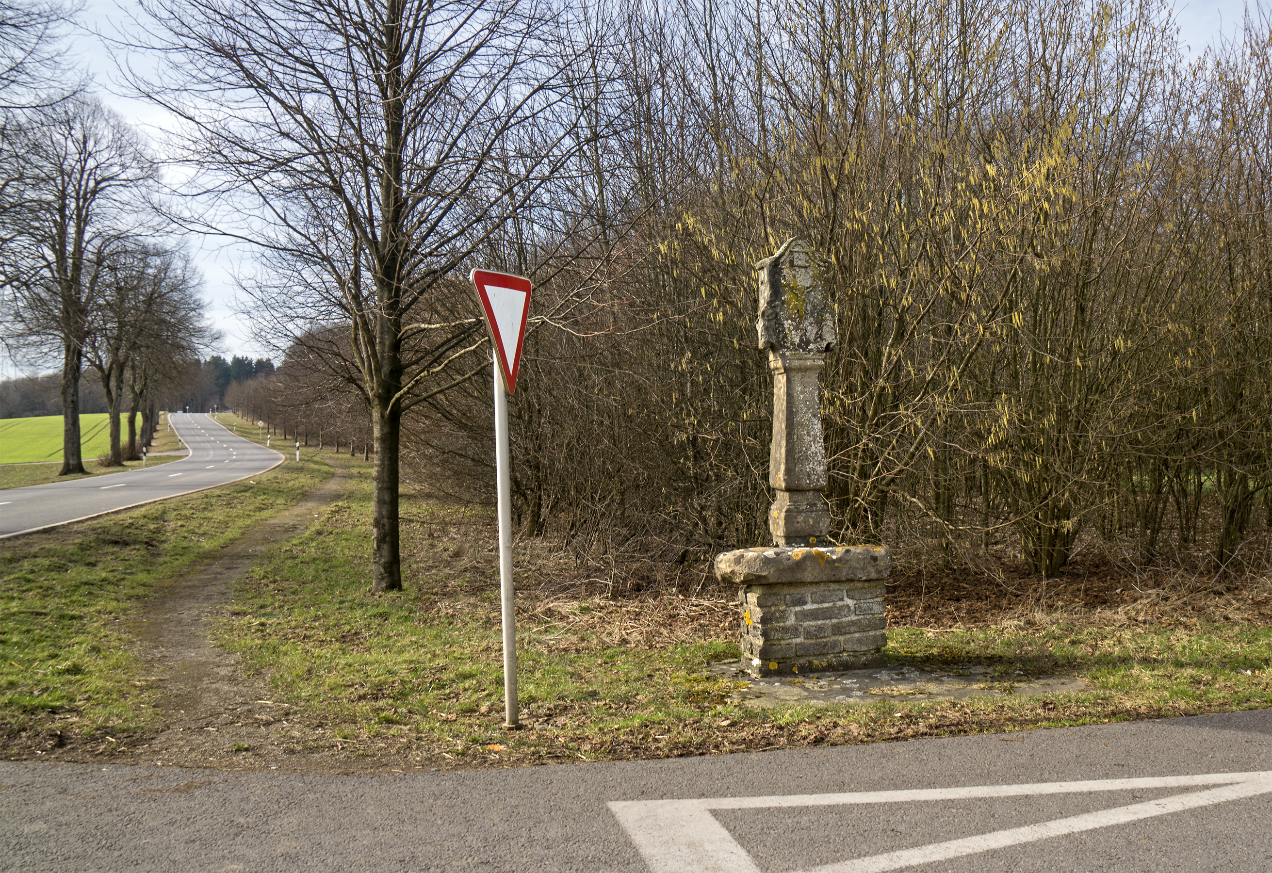 Wayside cross on the CR308 near Rindschleiden